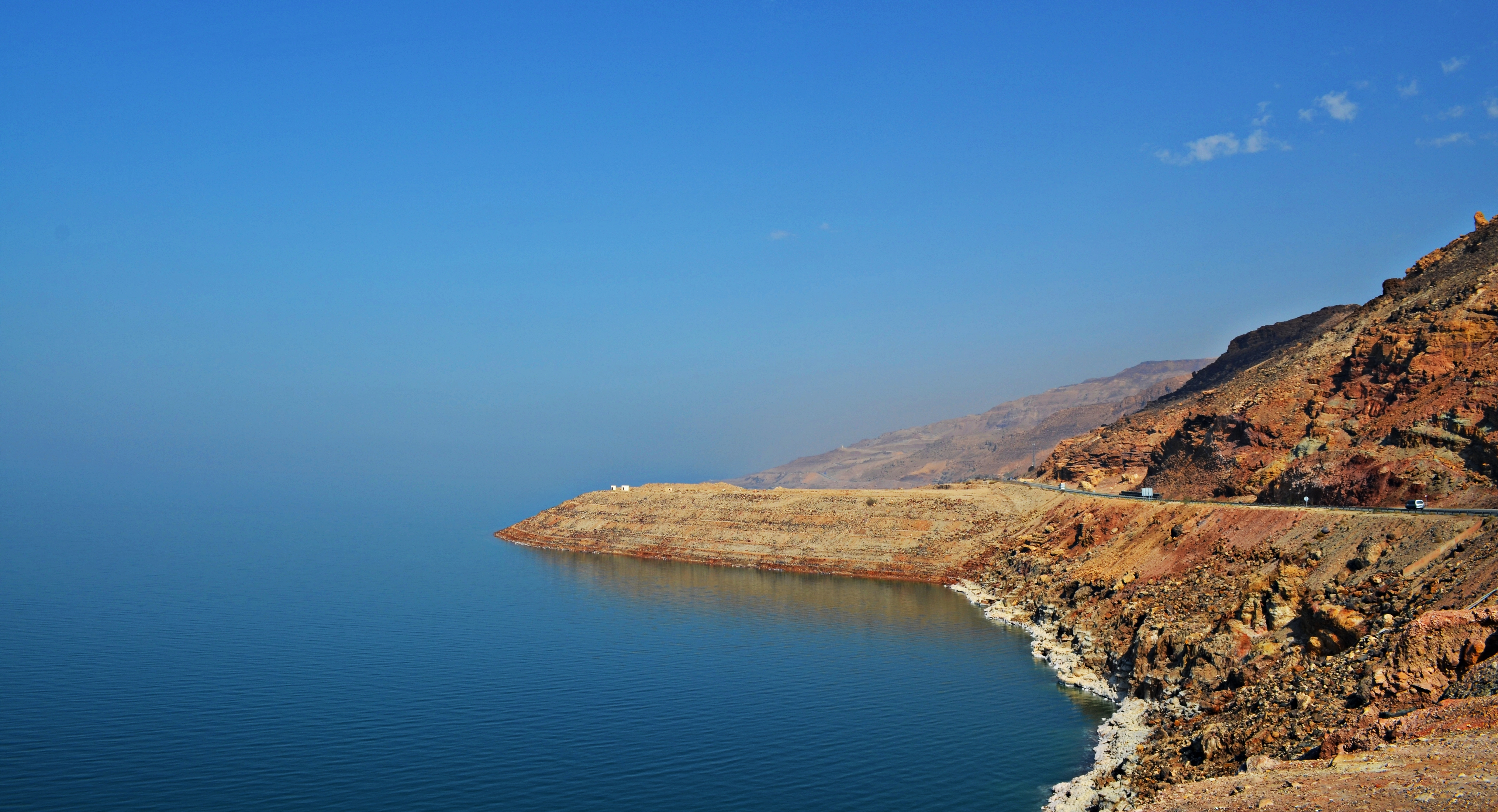 Dead Sea on the part of Jordan